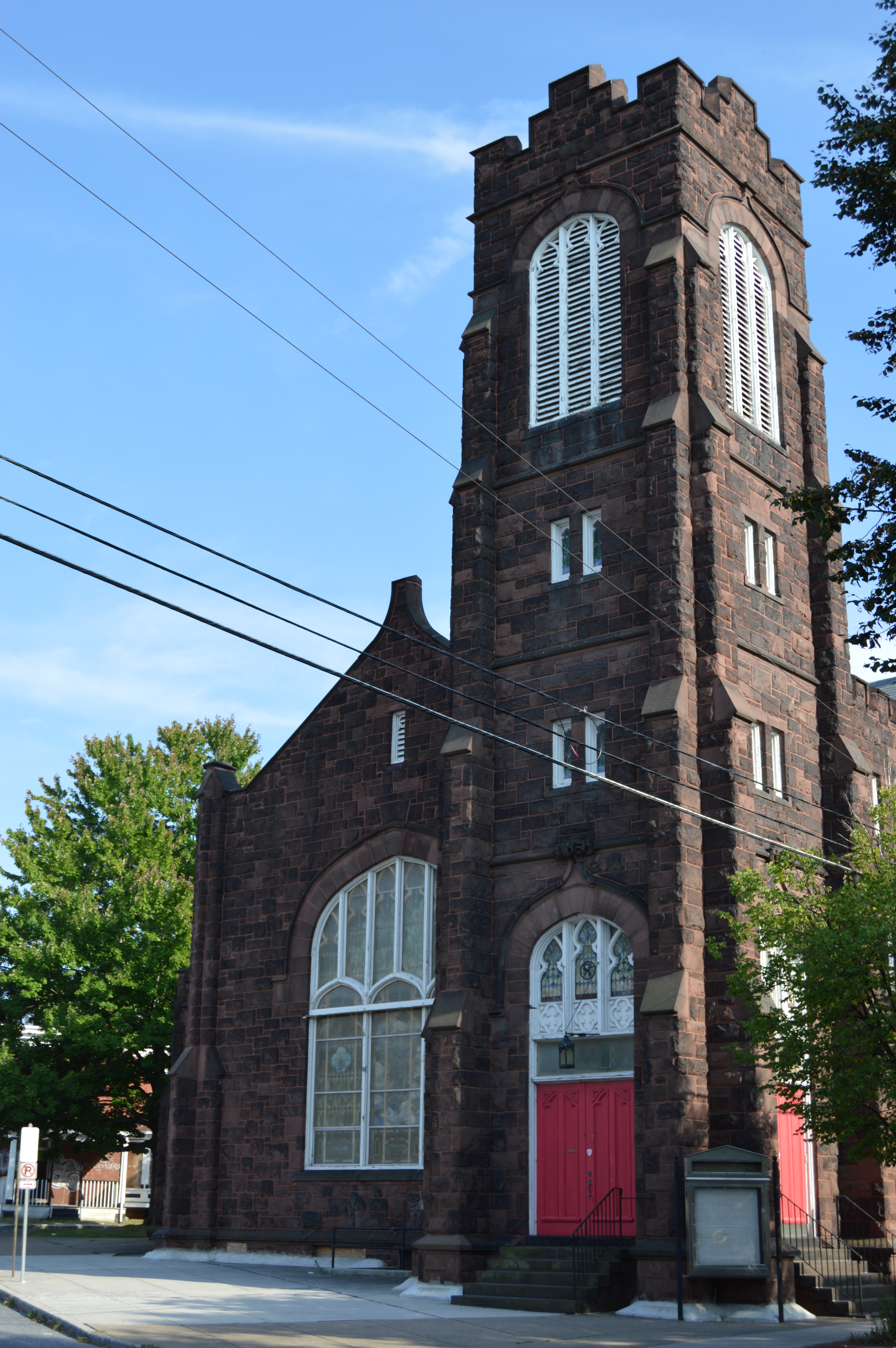 Front of the former B.E. Stevens Methodist Church, located on the southeastern corner of the junction of Thirteenth and Vernon Streets in Harrisburg, Pennsylvania, United States. Built in 1907, it is part of the Mount Pleasant Historic District, a historic district that is listed on the National Register of Historic Places.